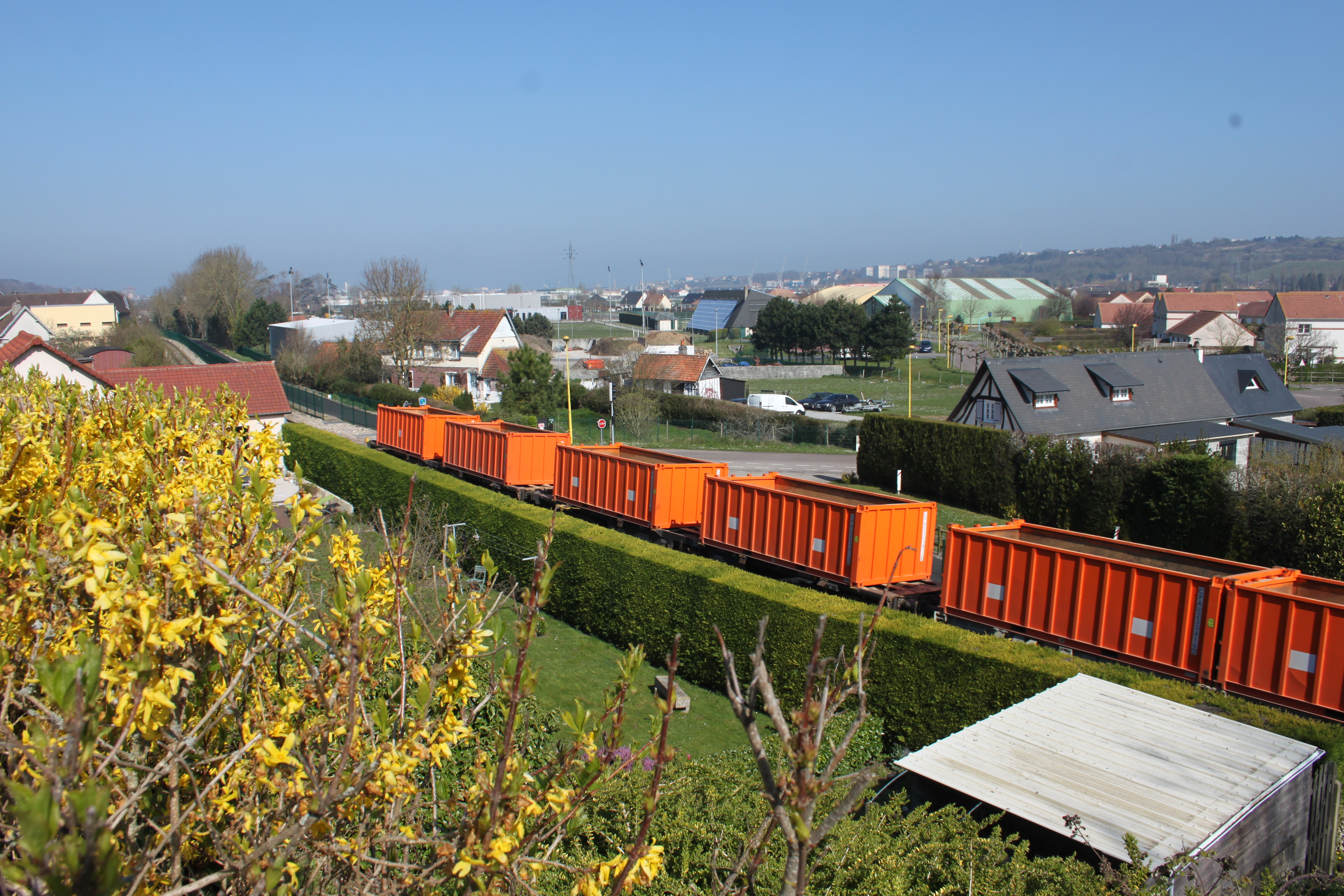 ligne de PONTOISE à DIEPPE, Rouxmesnil-Bouteilles(76), P.N.n°110, train COLAS RAIL de wagons portes-bennes vides à destination d'une plate-forme pour y charger de la terre issues du chantier d'une section de la R.N.27(près de Tourville-sur-Arques) .